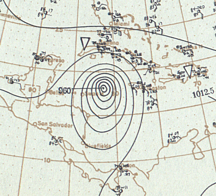 Surface analysis of the second hurricane of the 1903 Atlantic hurricane season on September 12.